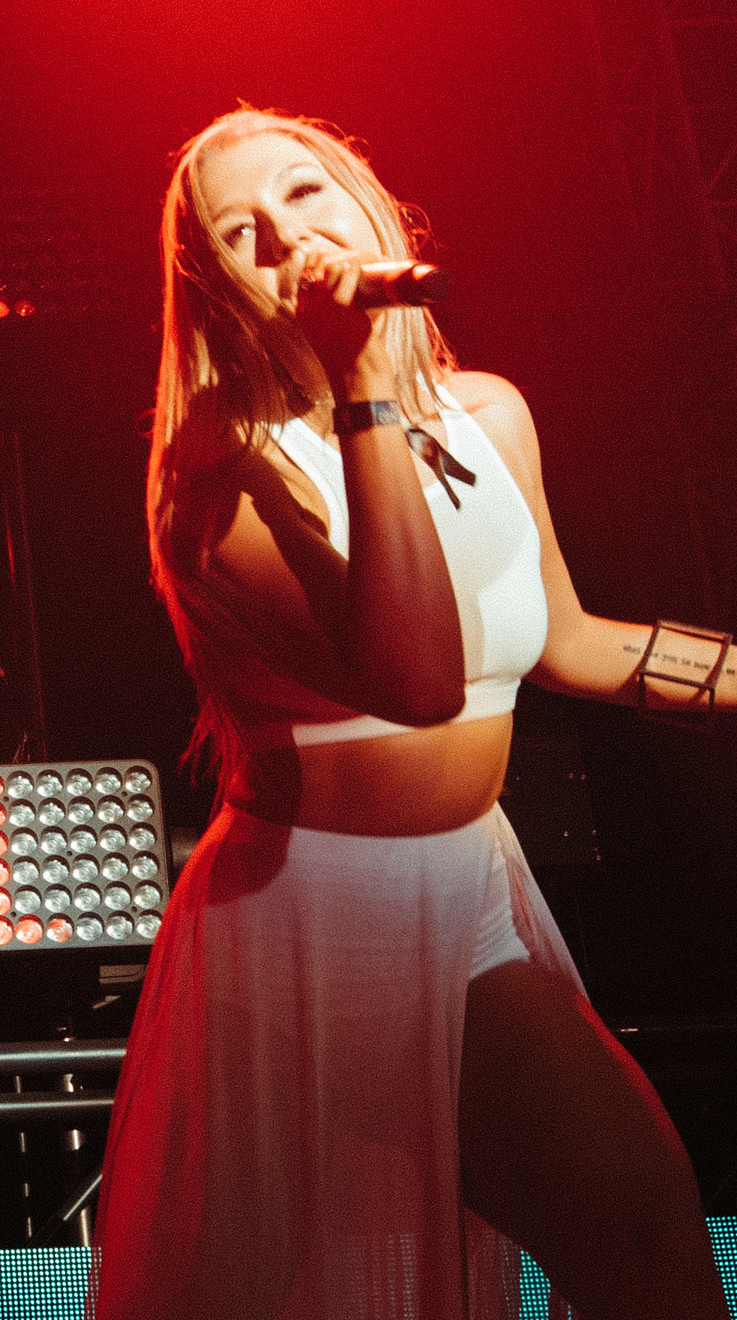 HALIENE performing live at Electric Daisy Festival 2017